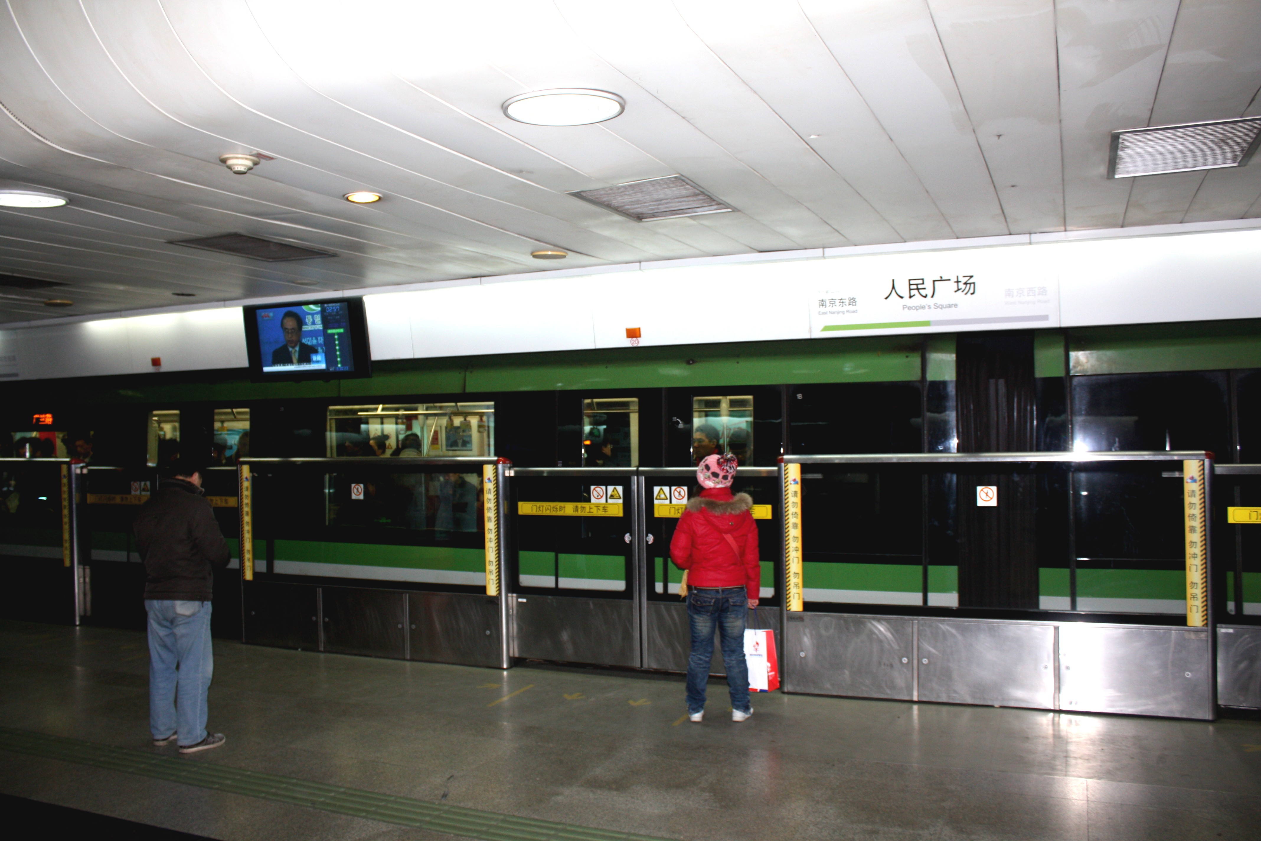 Shanghai Metro station People's Square (Line 2)